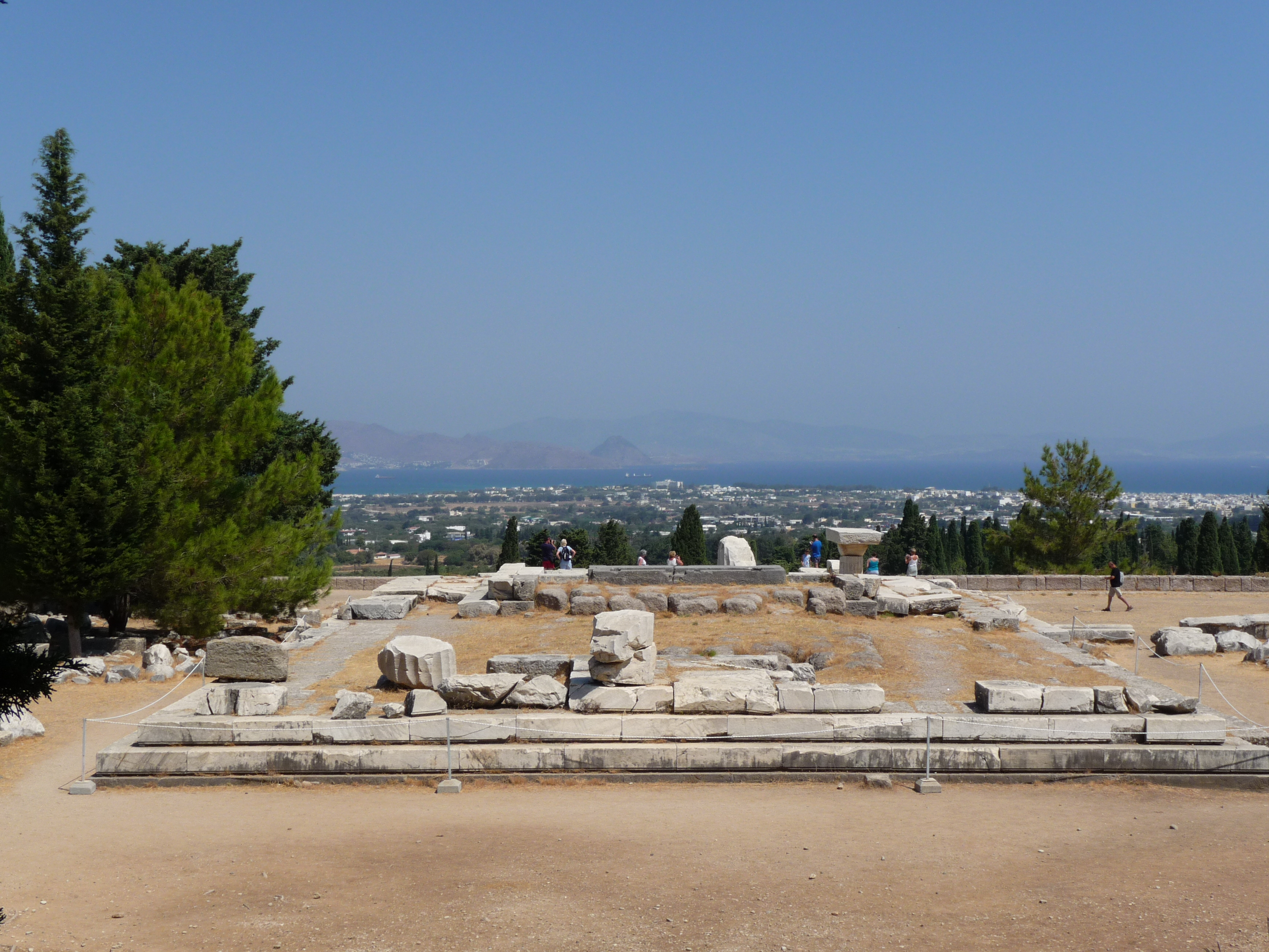 The Doric Temple of Asclepius on the third terrace of the Asklepion on Kos.